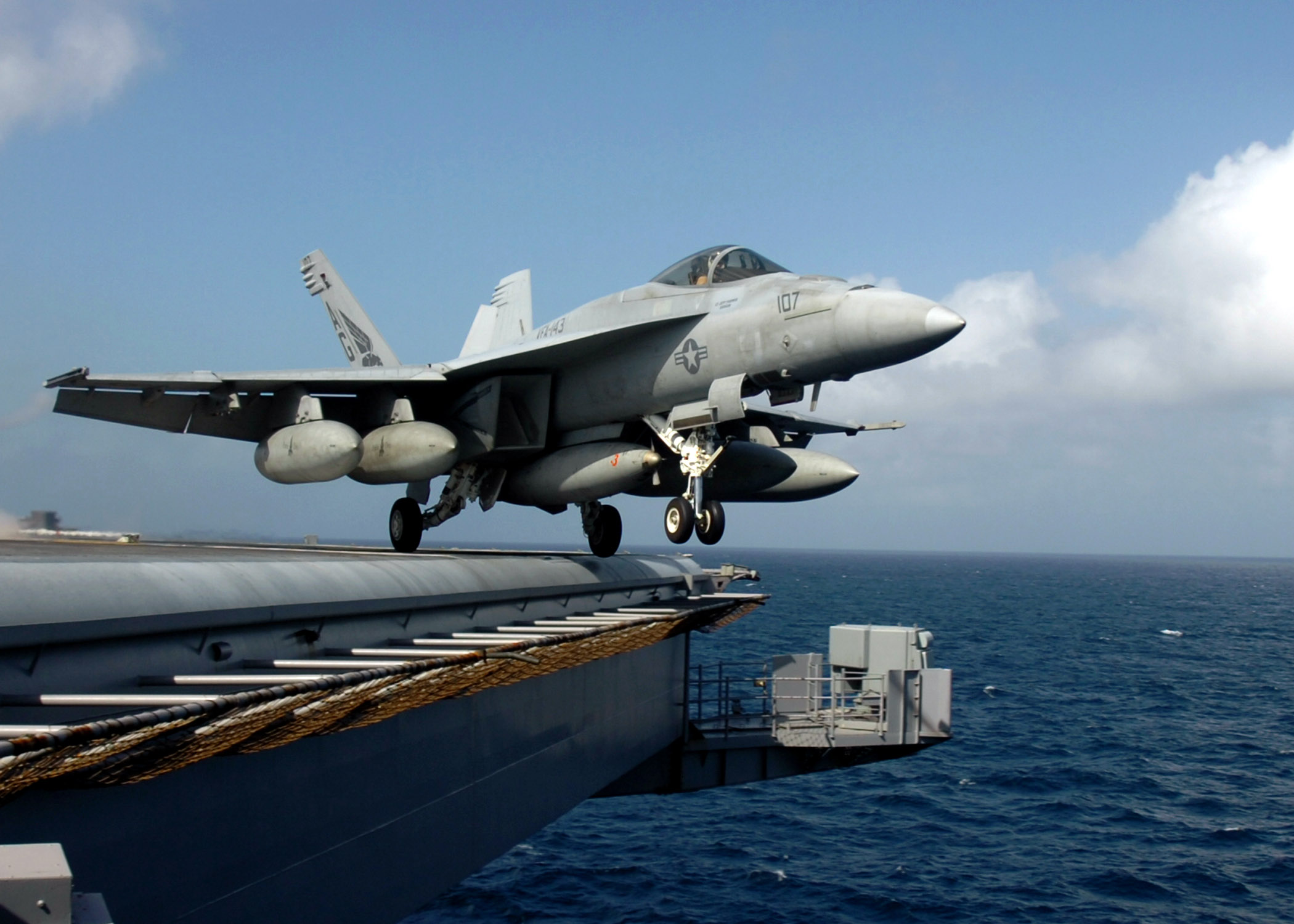 U.S. Naval Forces Central Command Area of Responsibility (Jan. 10, 2007) – An F/A-18E Super Hornet assigned to the “Pukin’ Dogs” of Strike Fighter Squadron One Four Three (VFA-143) launches from the flight deck of the Nimitz-class aircraft carrier USS Dwight D. Eisenhower (CVN 69). Eisenhower and embarked Carrier Air Wing Seven (CVW-7) are on a regularly scheduled deployment in support of Maritime Security Operations (MSO). MSO help set the conditions for security and stability in the maritime environment, as well as complement the counter-terrorism and security efforts of regional nations. These operations deny international terrorists use of the maritime environment as a venue for attack or to transport personnel, weapons or other material. U.S. Navy photo by Mass Communication Specialist Seaman David Danals (RELEASED)